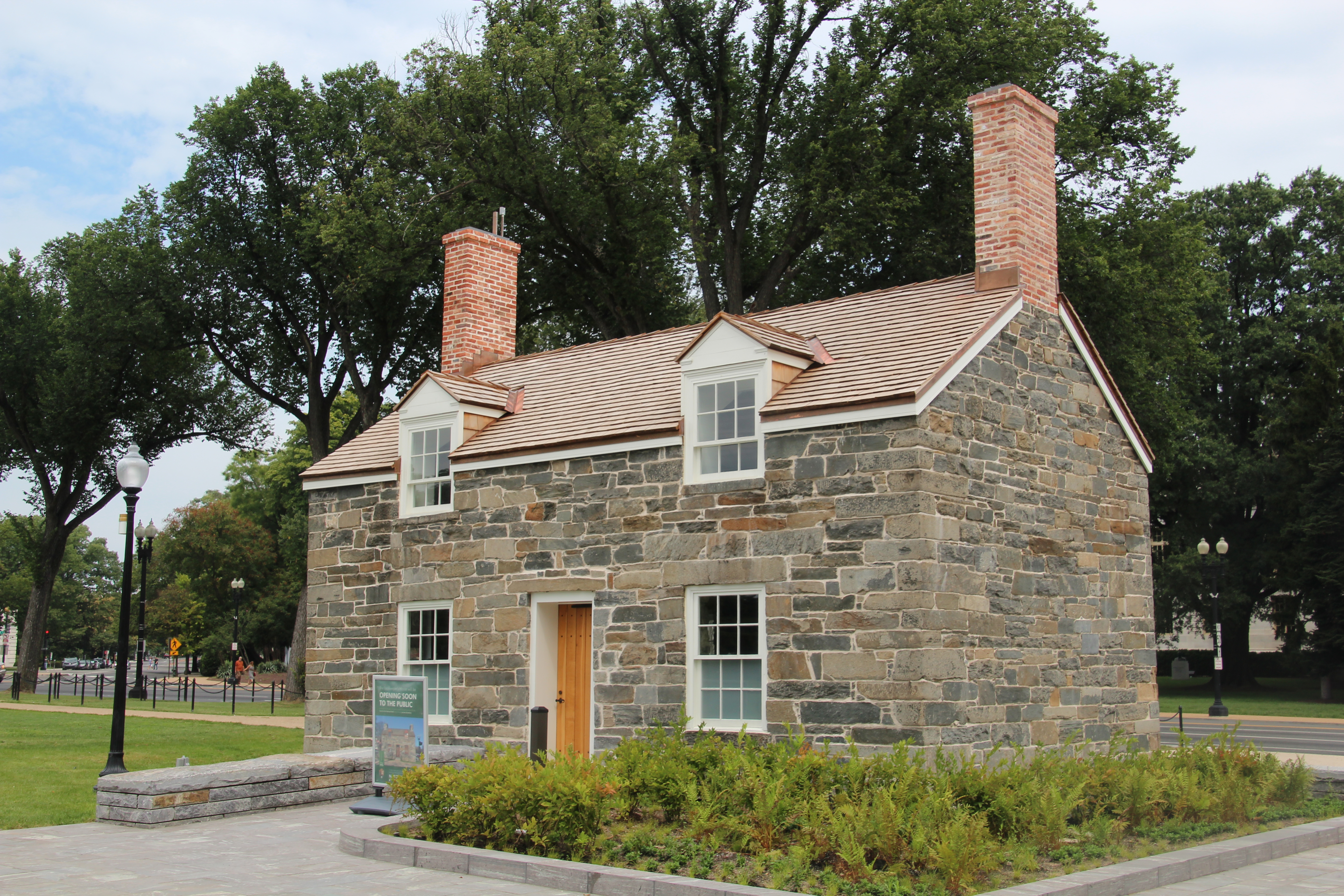 Lockkeeper's House, C & O Canal Extension, before reopening in late August 2018.